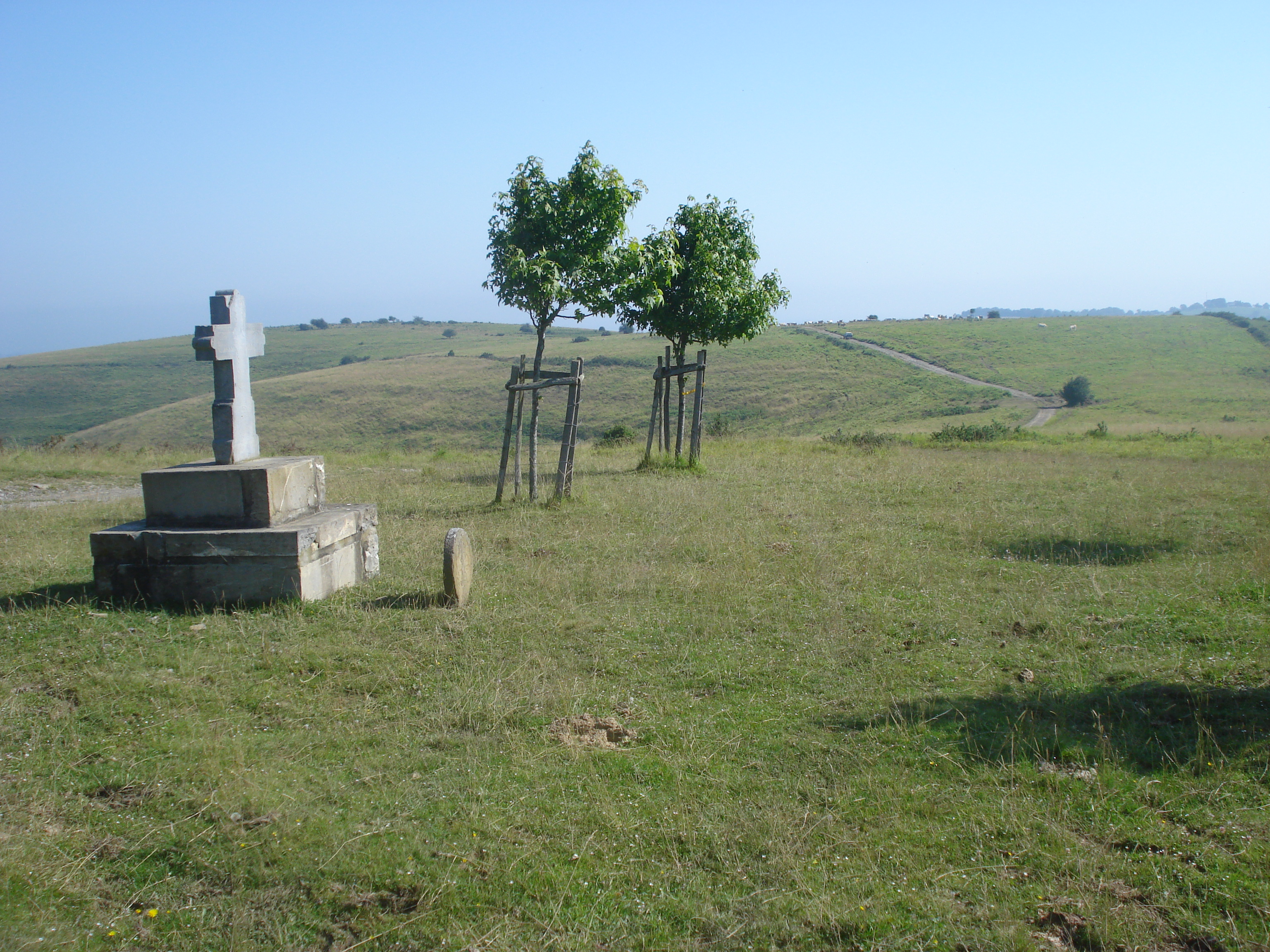 Ostabat (Pyr-Atl, Fr) Cross and discoidal stele near the chapel of Soyarza.